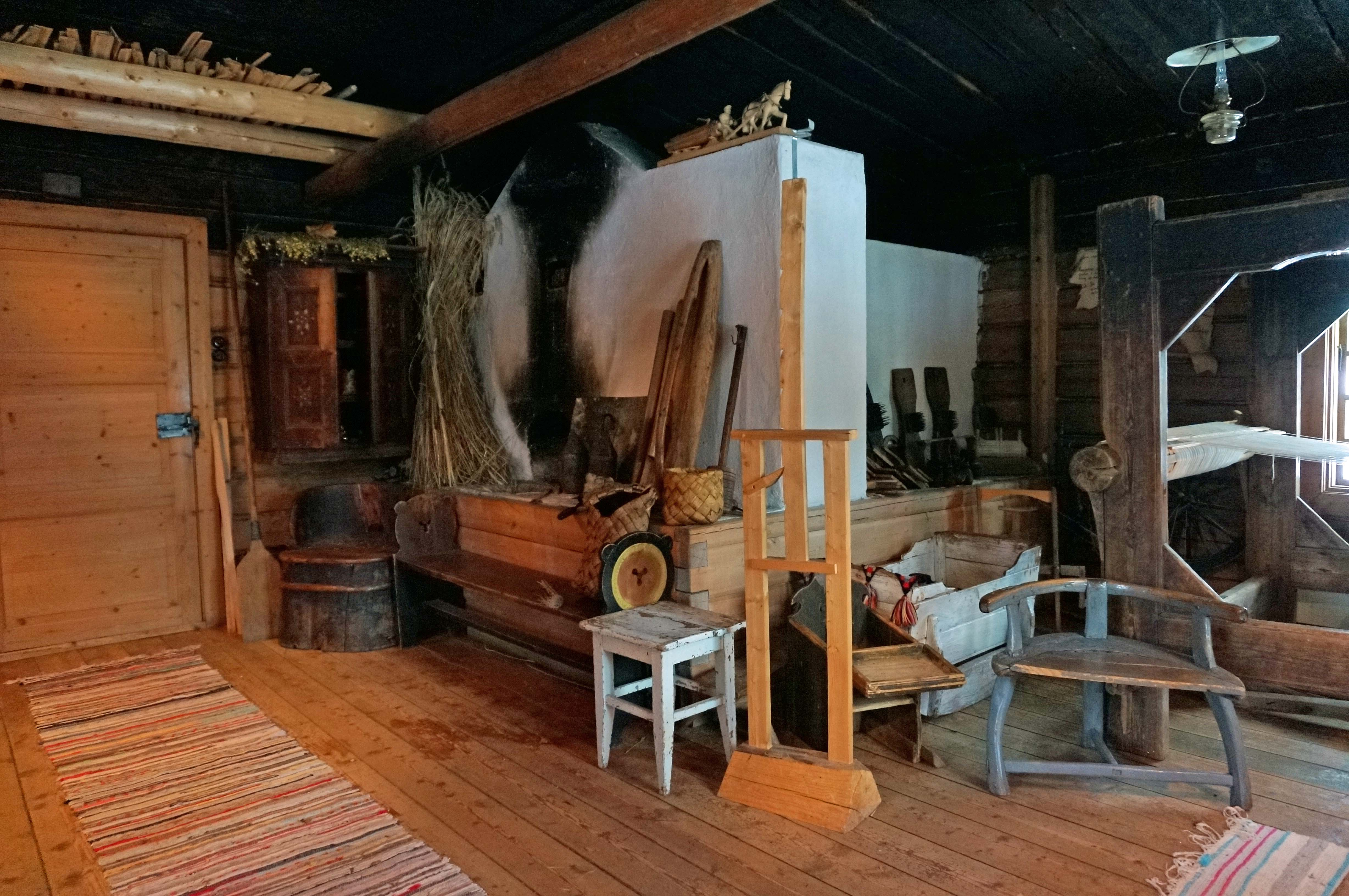 Interior from "Finnetunet" open air museum at Svullrya in Norway